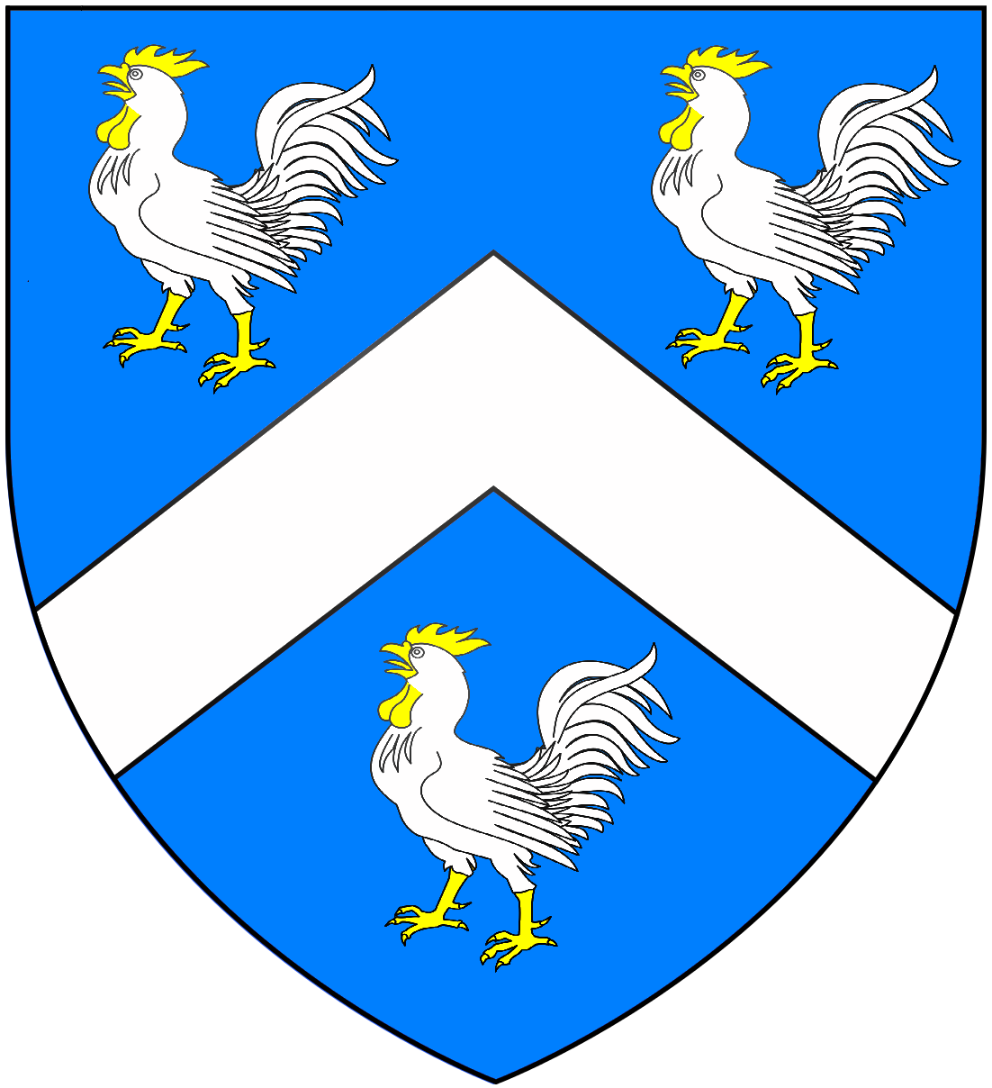 Arms of Lloyd of Dolobran, Montgomery, Wales (of which family was the Lloyds Quakers, bankers and steel manufacturers of Birmingham: Azure, a chevron between three cocks argent armed crested and wattled or ( Burke's Genealogical and Heraldic History of the Landed Gentry, 15th Edition, ed. Pirie-Gordon, H., London, 1937, pp.1392-3)